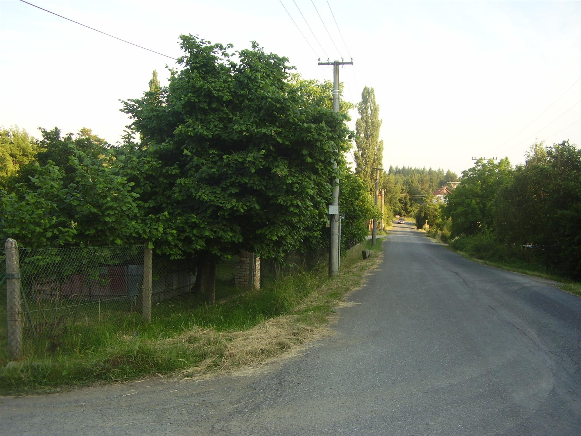 Chouzavá towards Voznice, Brdy